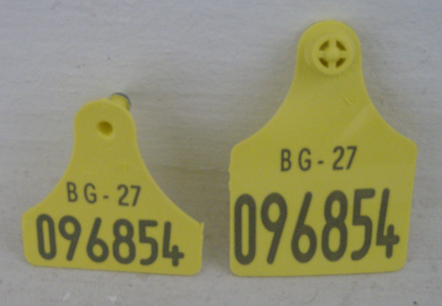 Bovine eartag